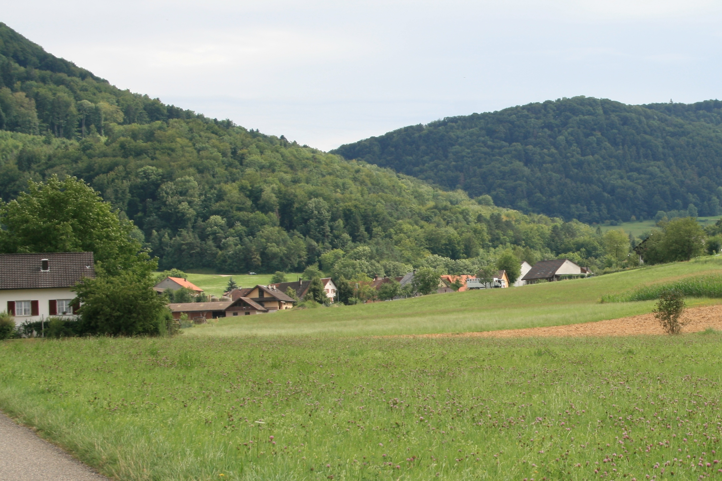 Oberzeihen, Zeihen AG, Switzerland